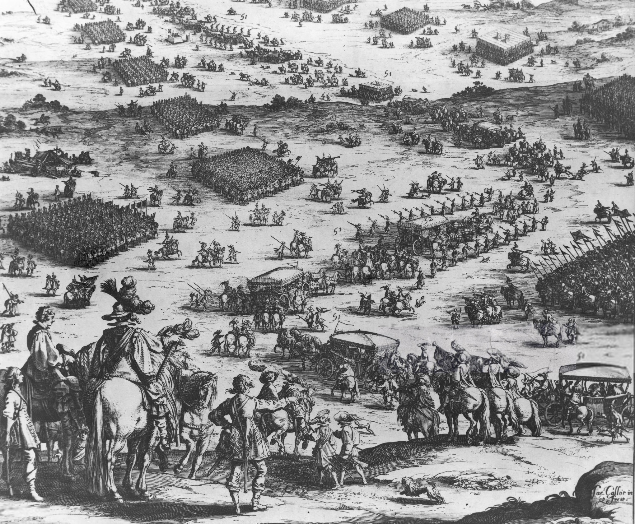 Engraving of the Siege of Breda from [1]